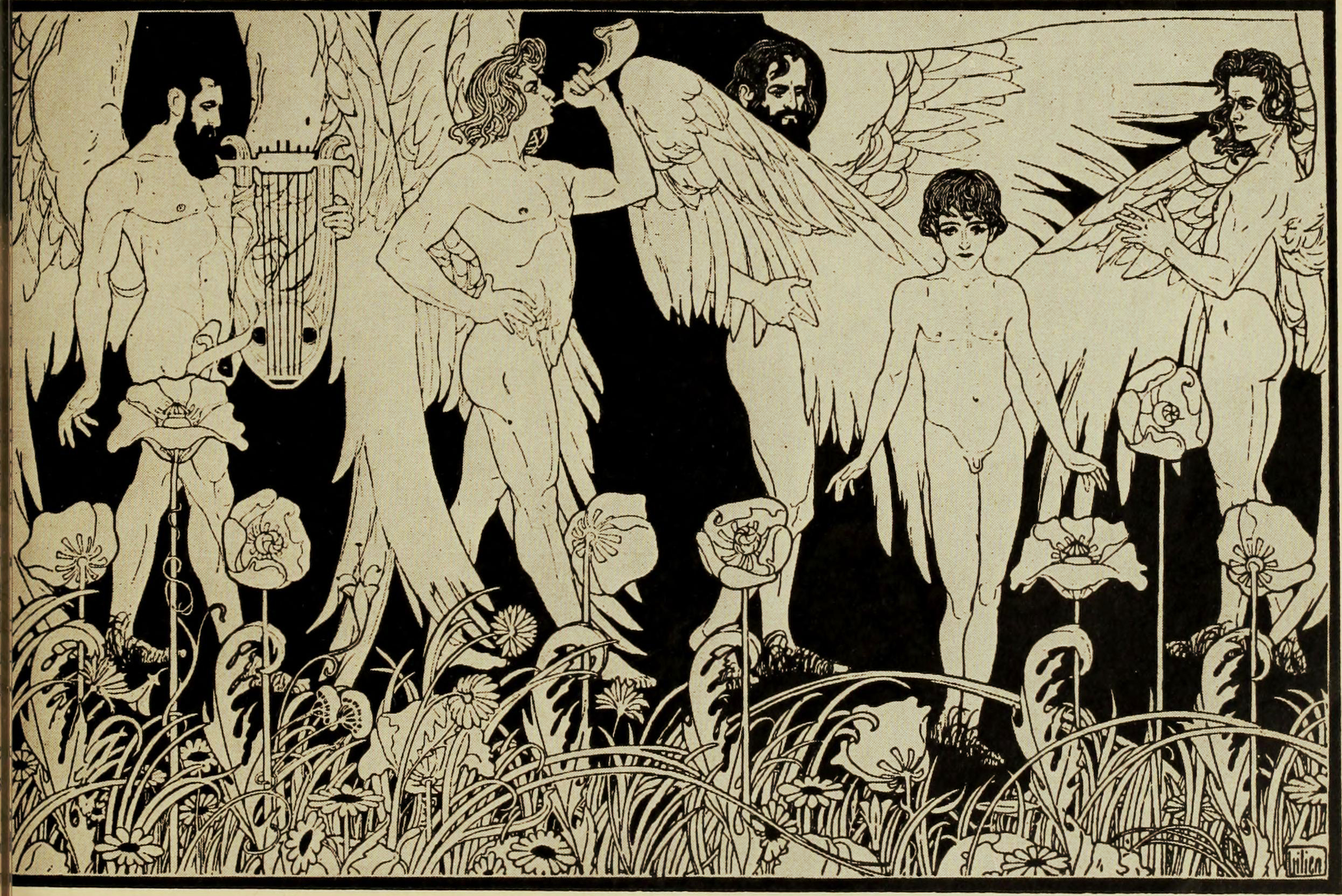 The creation of man. Illustration by Lilien (1874-1925) of the book (1903): Lieder des Ghetto of Morris Rosenfeld; translation from yiddish to german by Berthold Feiwel. The angel to the left bears the face of Theodor Herzl.